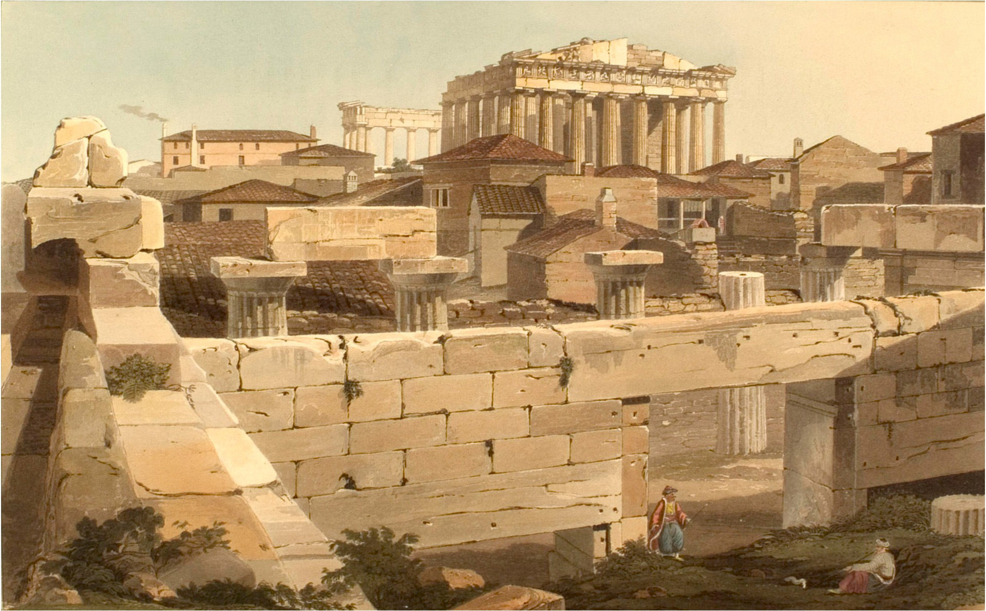 View of the Parthenon from the Propylea